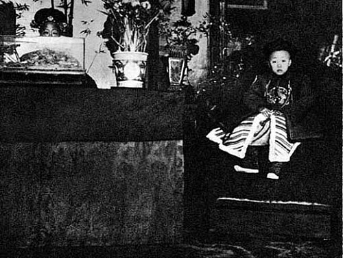 Emperor Xuantong and Empress Dowager Longyu